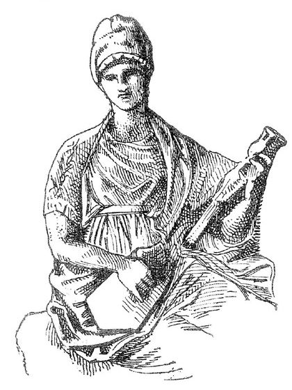 Pandoura, Greek lute, 4th century BC.